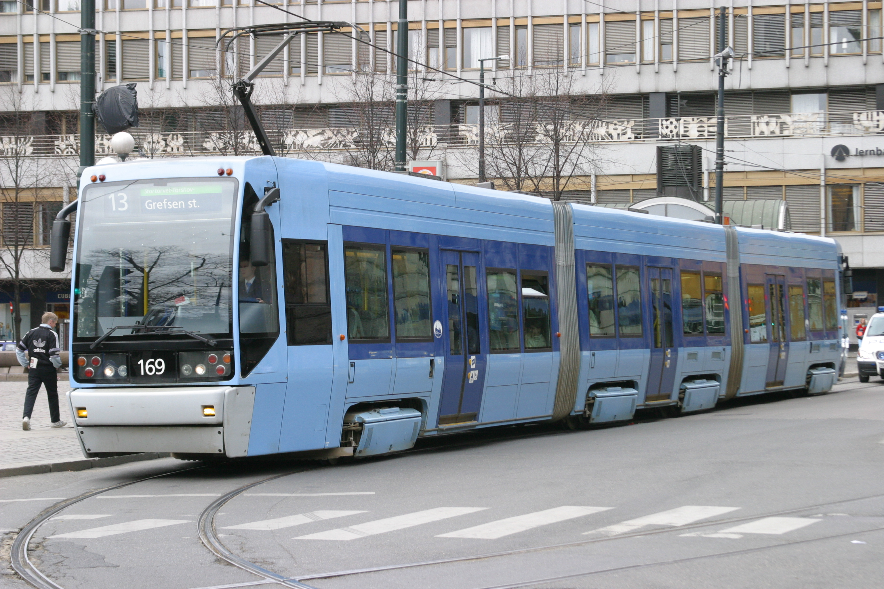 Picture of SL95 #169